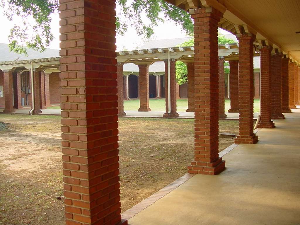 Arcades and courtyards at Kilby Laboratory — on the University of North Alabama campus in Florence, Alabama. Taken by me, May 27, 2007.